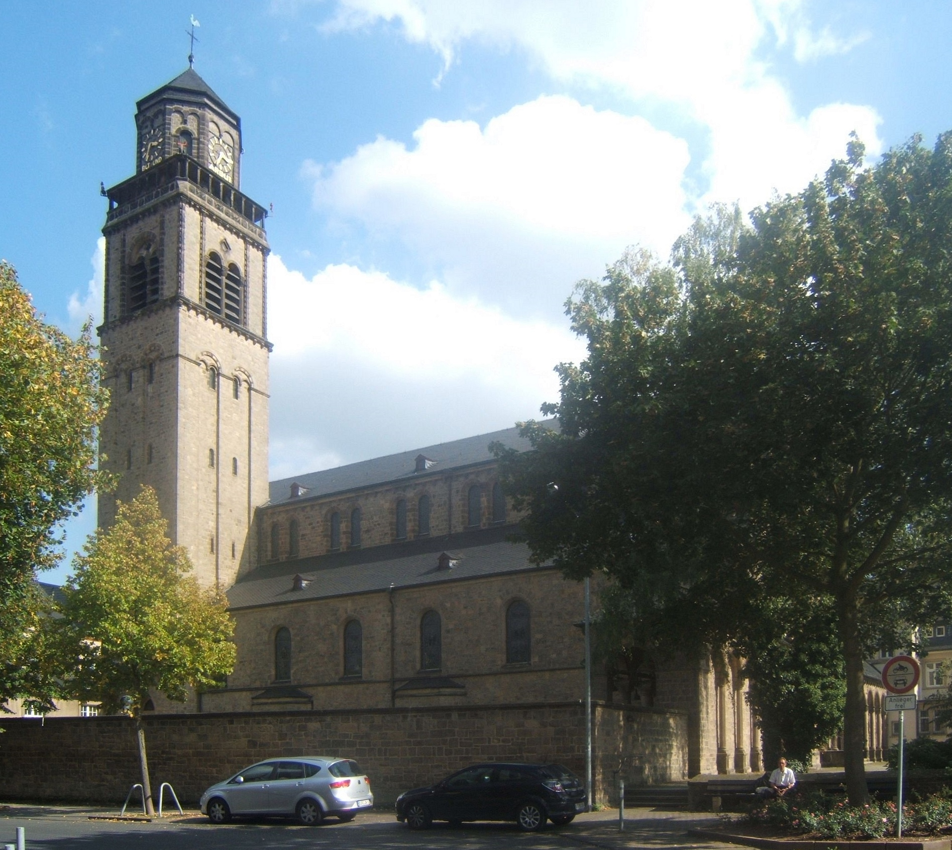 St. Martin catholic church, Trier, Germany